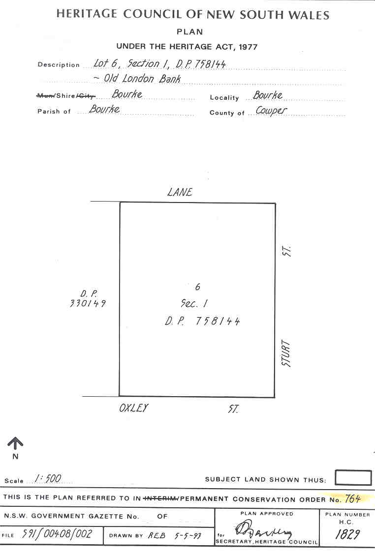 Old London Bank Building: PCO Plan Number 764